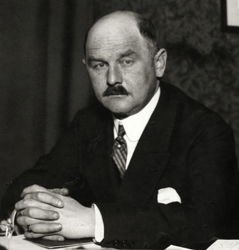 Lodewijk Bosch Knight of Rosenthal, Mayor of the city of The Hague 1930–1934